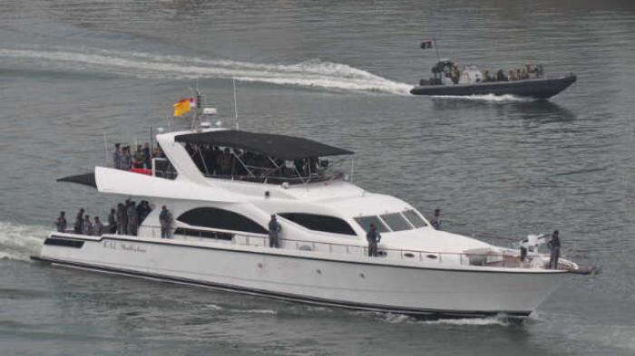 Indonesian navy presidential yacht KAL Yudhistira flying national and presidential flags of Indonesia during naval fleet review at Koarmatim quay, Ujung, Surabaya, East Java.(03/12/2014)